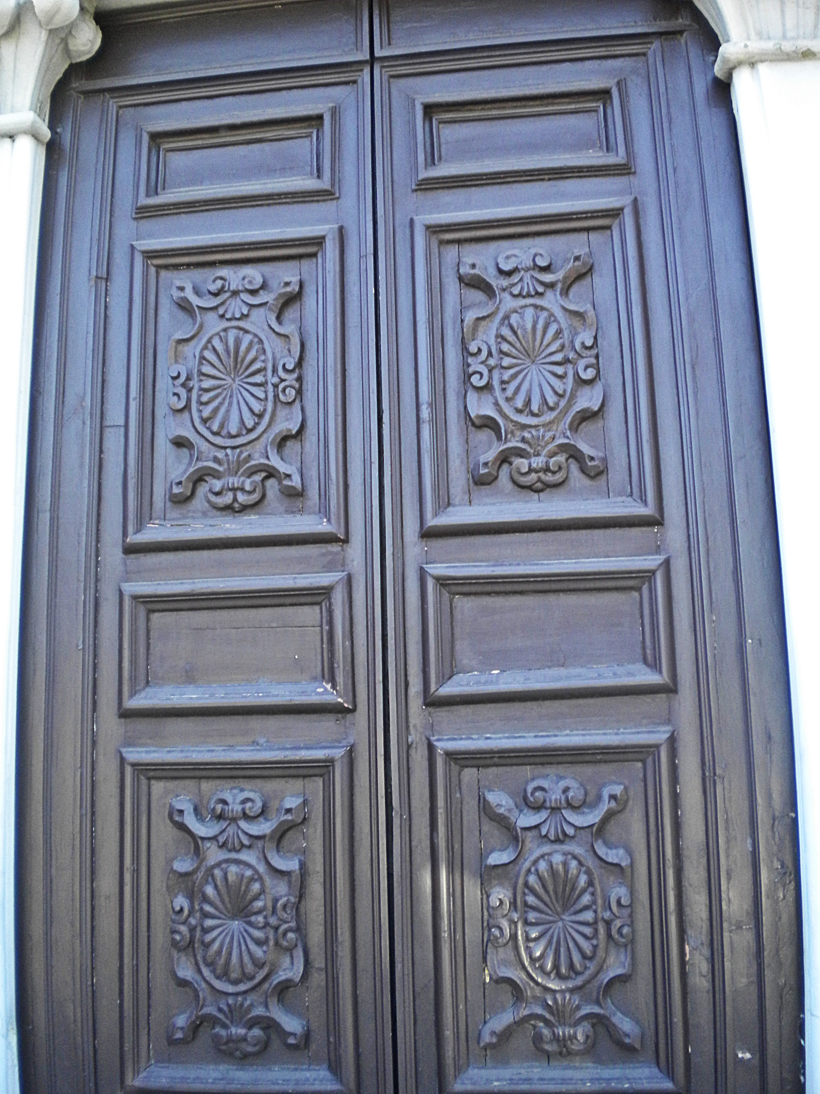 particular of the entrance door